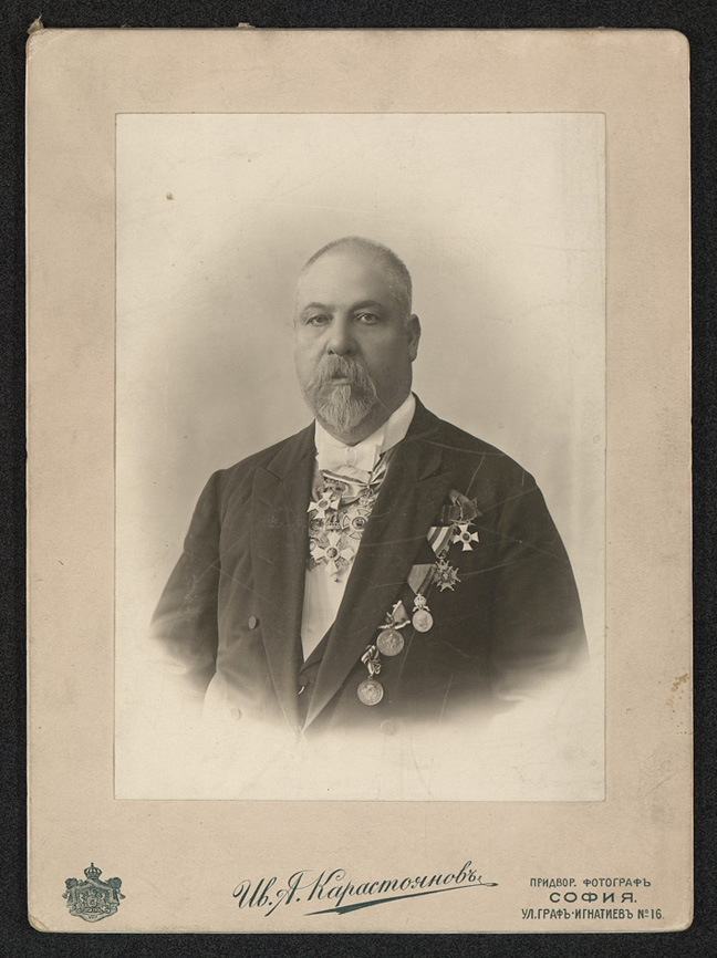 Petar Ivanov